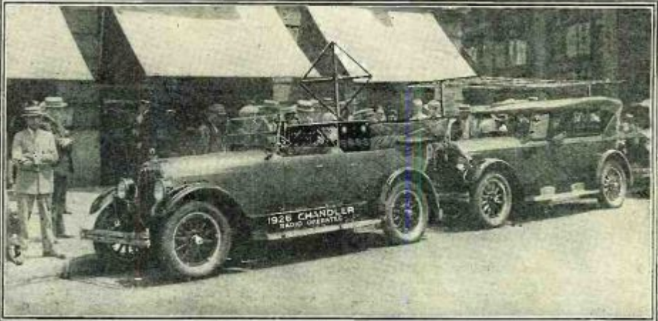 Esimene isesõitev auto